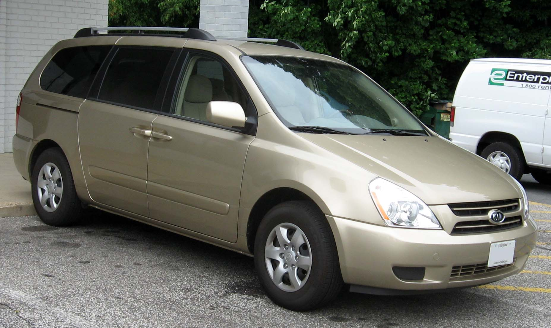 2006-2007 Kia Sedona photographed in Fort Washington, Maryland, USA.